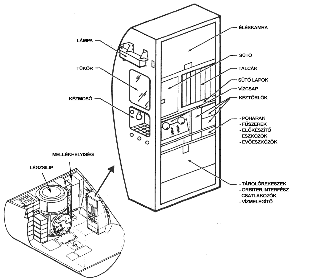 Personal hygiene equipment in Space Shuttle orbiter